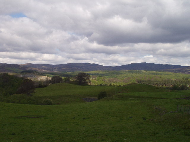 Kames. These kames can be found close to Far Leitre crag (a roche moutonnée), and close to Loch Insh.